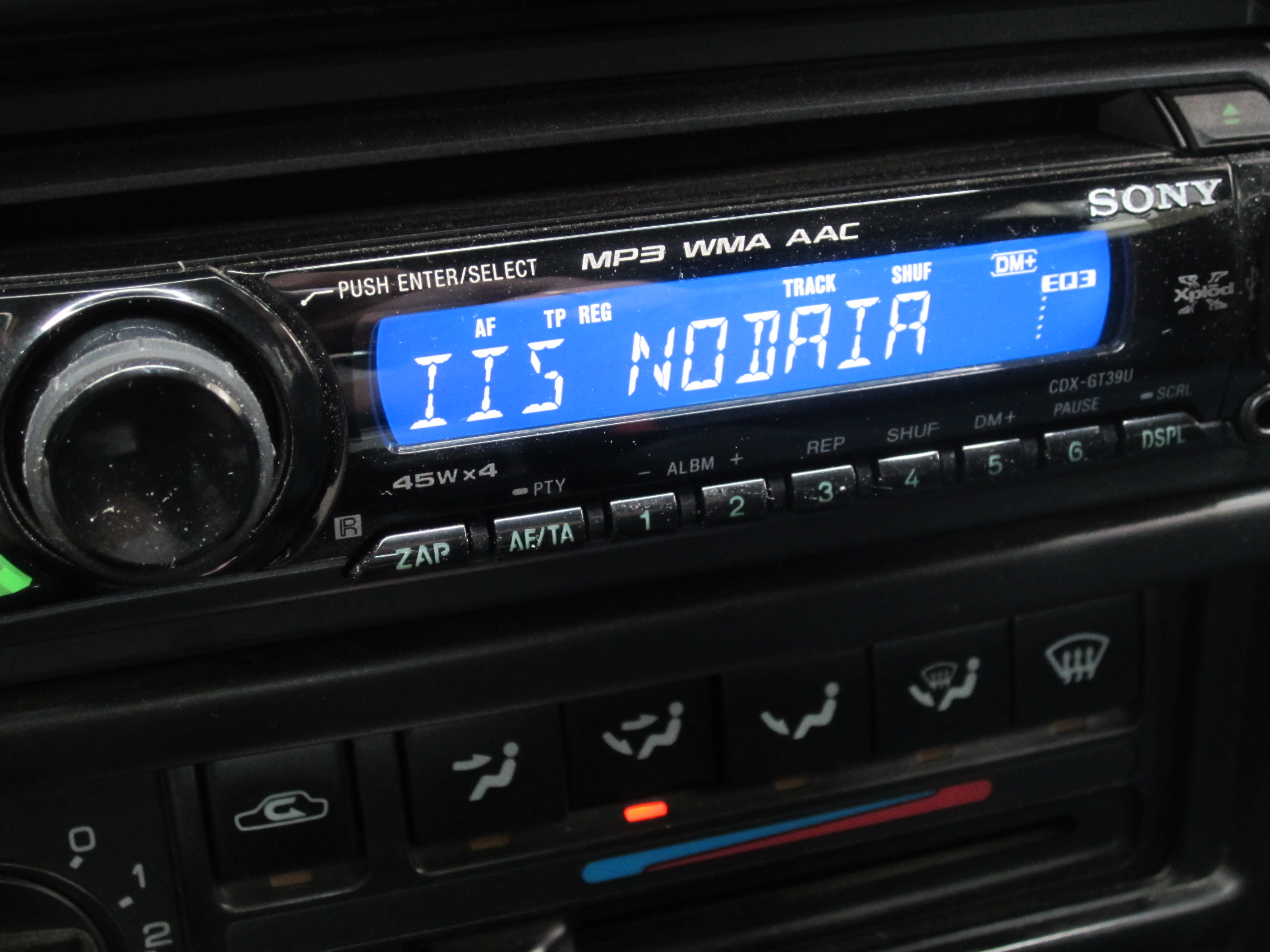 Mojibake on a car audio system. Original title: Моя страна (Moya Strana) by Emil Dimitrov